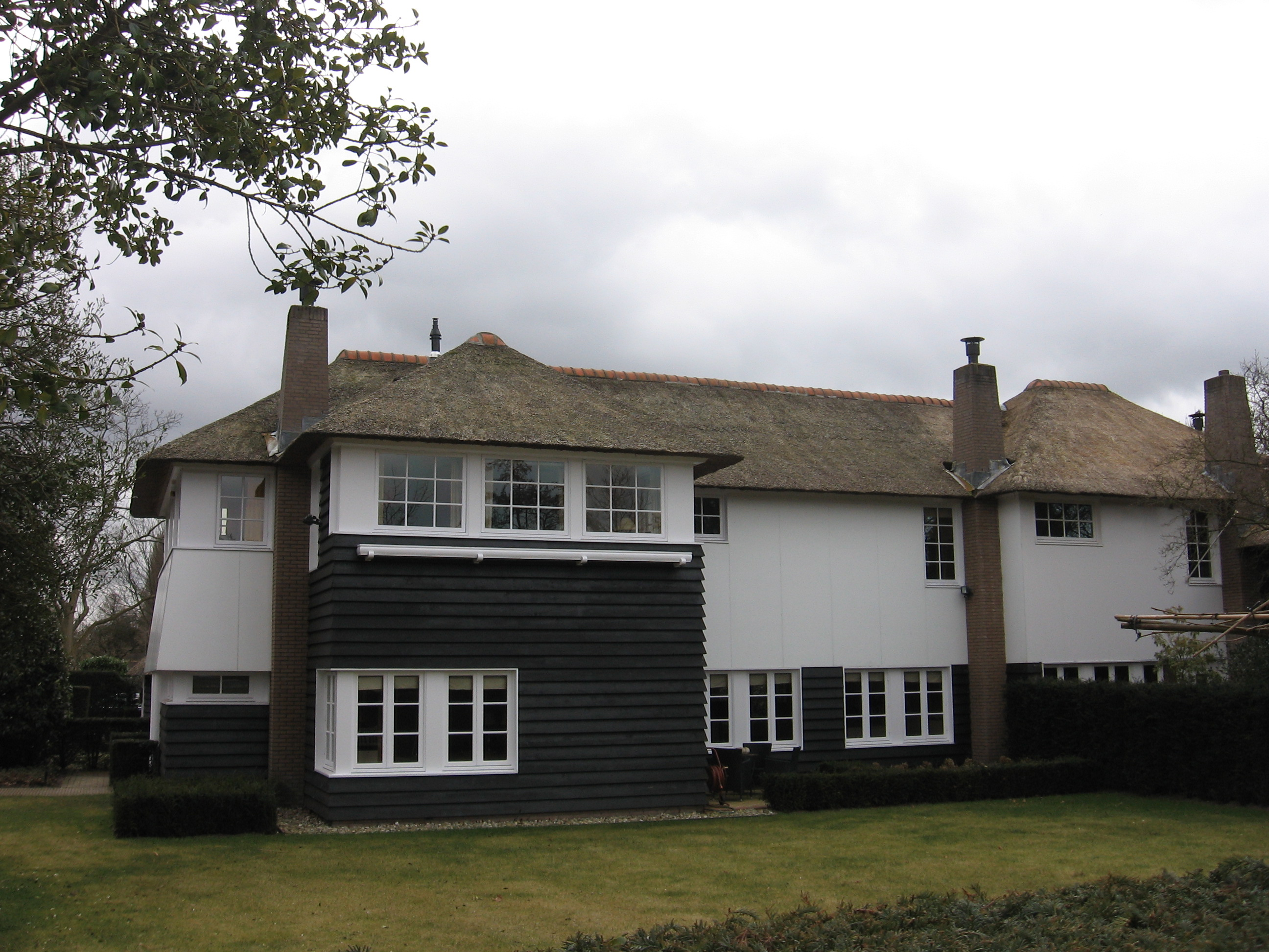 Rijksmonumentnr 524784, Godelindeweg 36